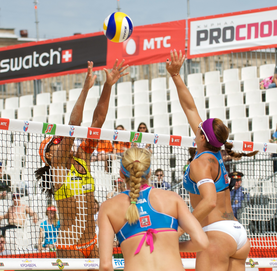 Grand Slam Moscow 2012